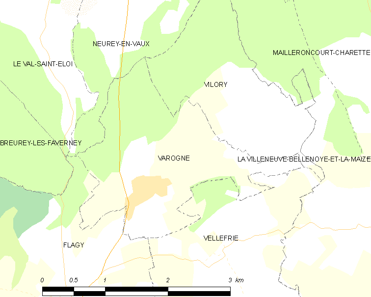 Map of French municipality